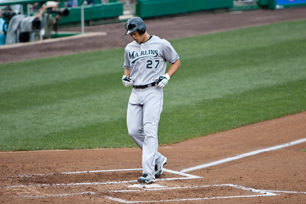 Mike Stanton hit a home run into the left field stands to lead off the 2nd inning